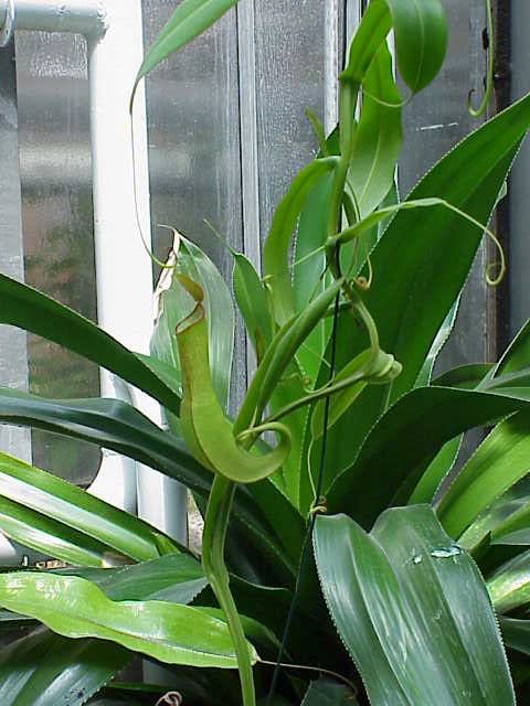 Species: Nepenthes reinwardtiana Family: Nepenthaceae Image No. 4